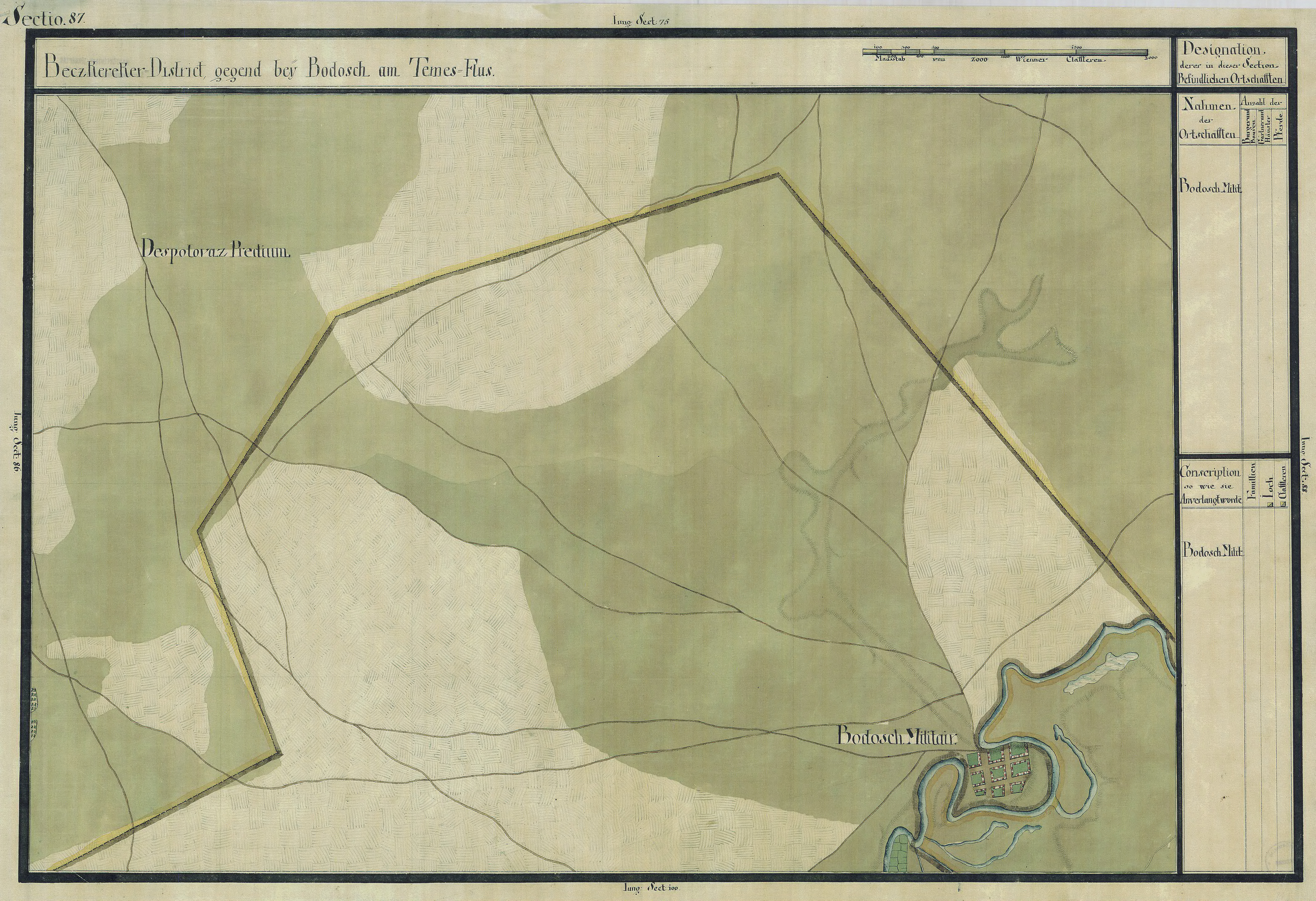 The Banat region in the cadastral maps: Josephinische Landesaufnahme, 1769-72. Josephinische Landaufnahme pg087